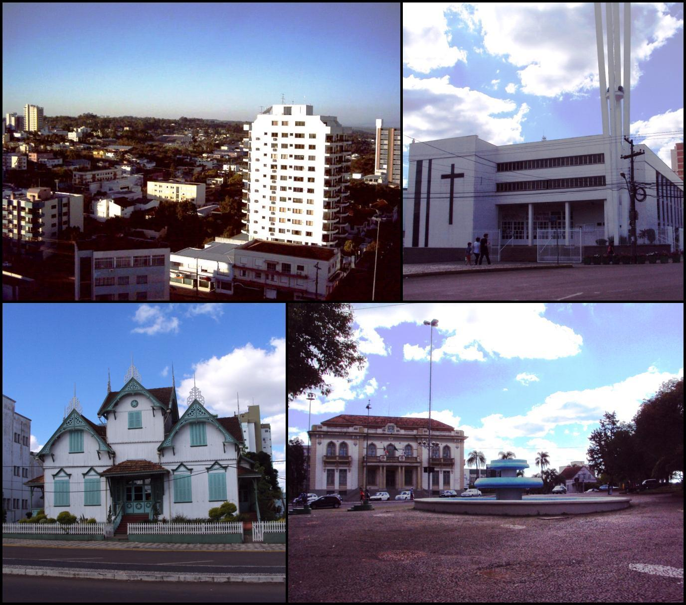 Montage of Erechim, Rio Grande do Sul, Brazil.